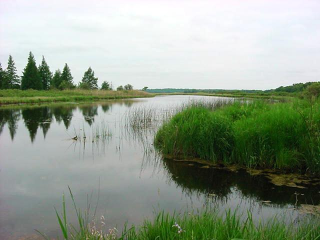 Fox River